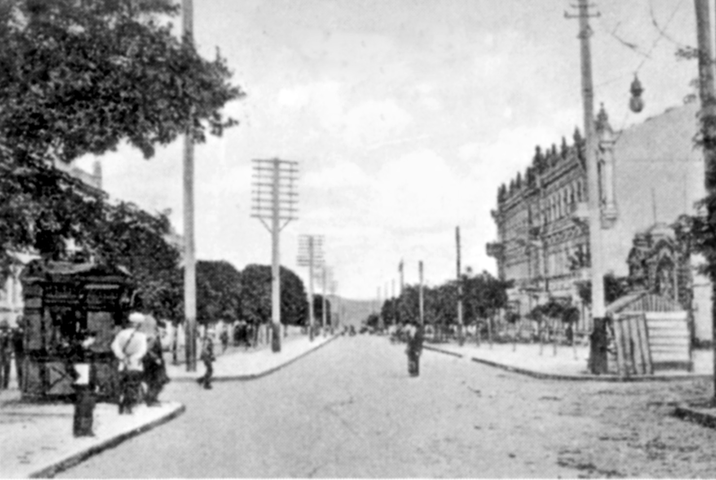 Old picture